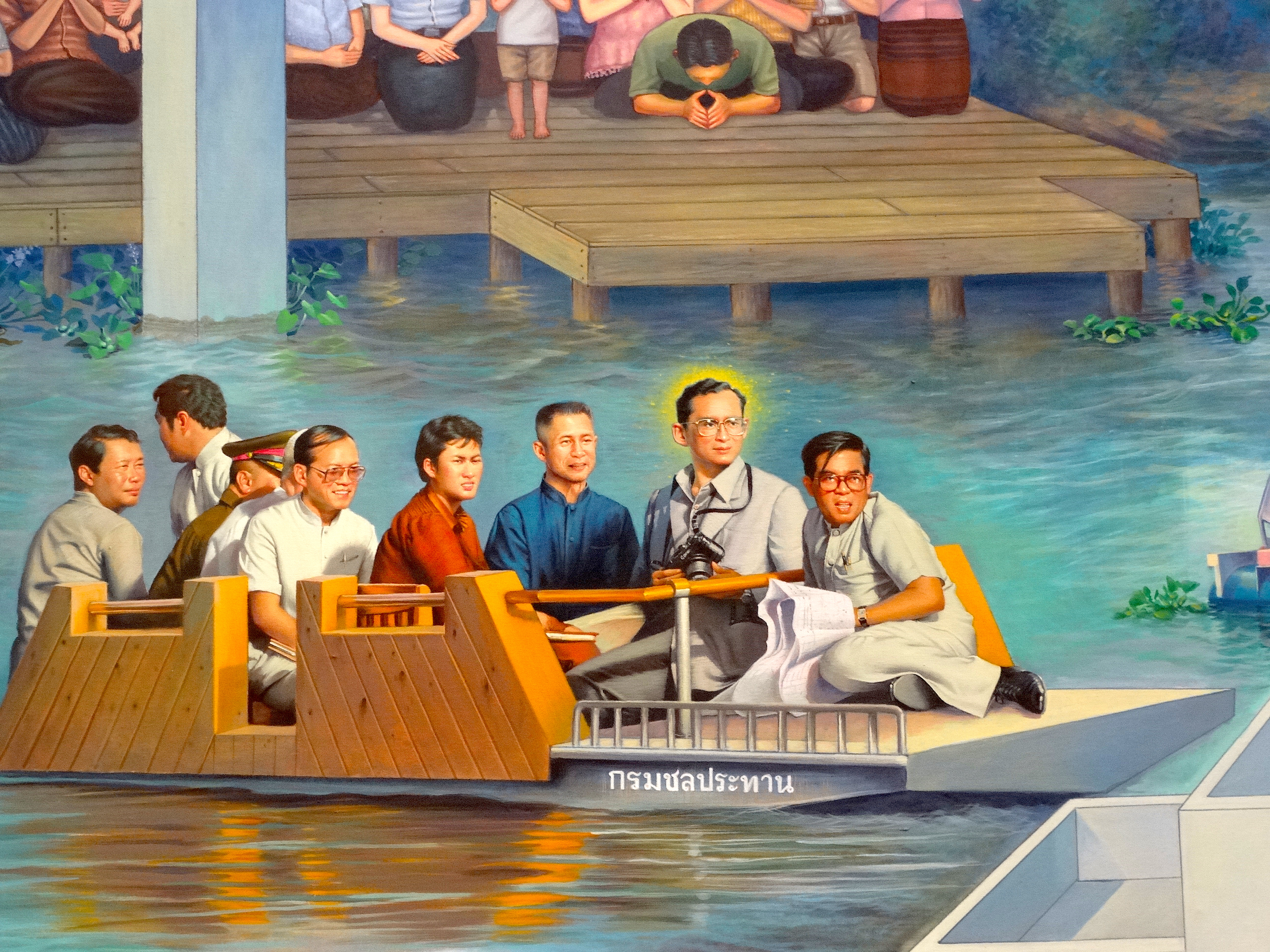 Art and Decoration from Royal Crematorium King Rama 9 of Thailand.